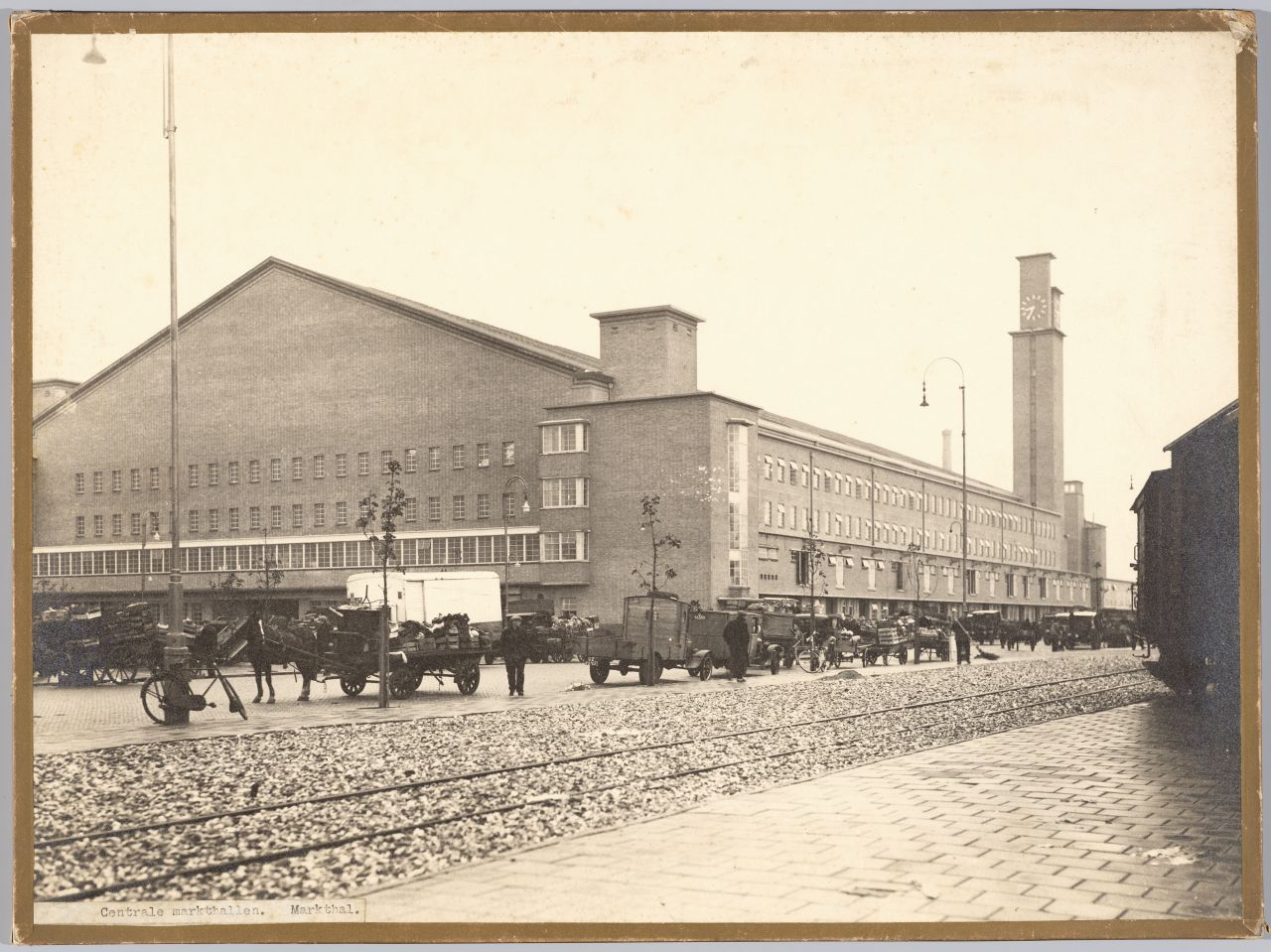 Centrale markthallen, Jan van Galenstraat, Amsterdam, 193'2. Architect: N. Lansdorp. Fotograaf: onbekend. Collectie NAi / TENT_n293 URL van deze afbeelding: Meer foto's uit deze collectie kunt u bekijken in de Collectiedatabase van het NAi. Niet van alle gebouwen en interieurs zijn alle gegevens bekend. Heeft u meer informatie of weet u het adres van een gebouw? Laat dan een reactie achter (als u ingelogd bent bij Flickr) of stuur een mailtje naar: Al deze foto's zijn gemaakt in de eerste helft van de twintigste eeuw. Wij zijn benieuwd hoe deze gebouwen er vandaag de dag uitzien. Heeft u recente foto's van deze gebouwen of locaties, voeg ze dan toe als commentaar. U kunt een eigen Flickr-foto toevoegen door de URL ervan tussen vierkante haken in het commentaarveld te plakken. Als uw foto's een Creative Commons licentie hebben, nemen we ze bovendien graag op in de NAi Collectiedatabase. Market Hall, Jan van Galenstraat, Amsterdam, 1932. Architect: N. Lansdorp. Photographer: unknown. NAI Collection / TENT_n293 Persistent URL: For more photographs from this collection, please visit the NAI Collection Database You can help us gain more knowledge on the content of our collection by adding a comment with information. If you do not wish to log in, you can write an e-mail to: All these pictures are taken in the first half of the twentieth century. We are curious to learn how these buildings look like today. If you have recently taken photographs of these buildings or locations, please add them to your comment. If you'd like to include a Flickr photo, simply copy and paste its URL between square brackets in the commentary-field. Photos with a Creative Commons licence may be used to illustrate the NAi Collection Database.